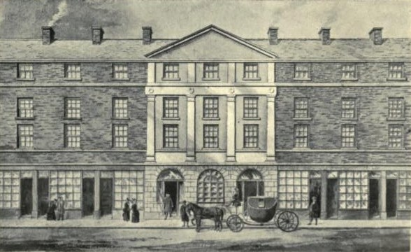 Heywood's Bank, Castle Street, Liverpool, in 1787.